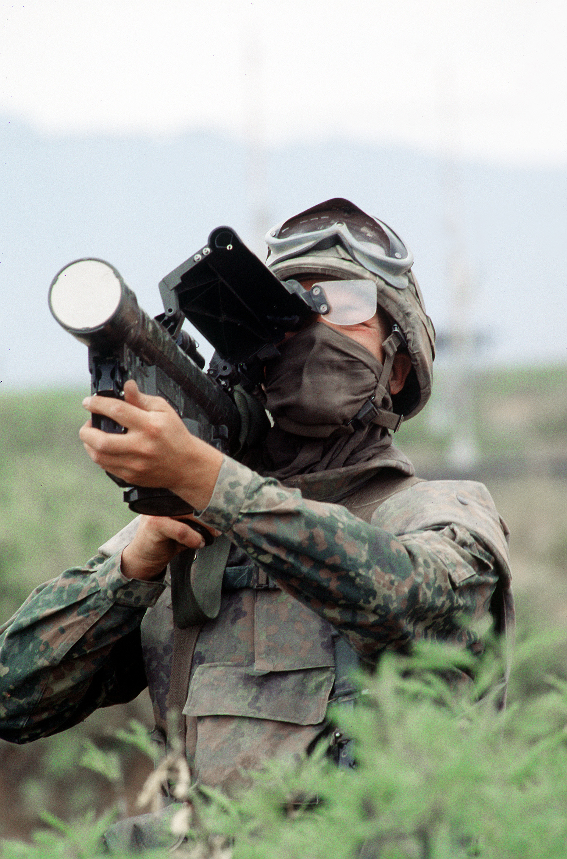 A soldier from the Mixed Air Defense Artillery Regiment 2 locks onto a UH-1 helicopter during his unit's participation in Roving Sands '96, the US military's largest annual joint air defense training exercise. He is shouldering a FIM-43 Redeye Low Altitude Surface to Air missile. Location: MCGREGOR RANGE, NEW MEXICO (NM) UNITED STATES OF AMERICA (USA)